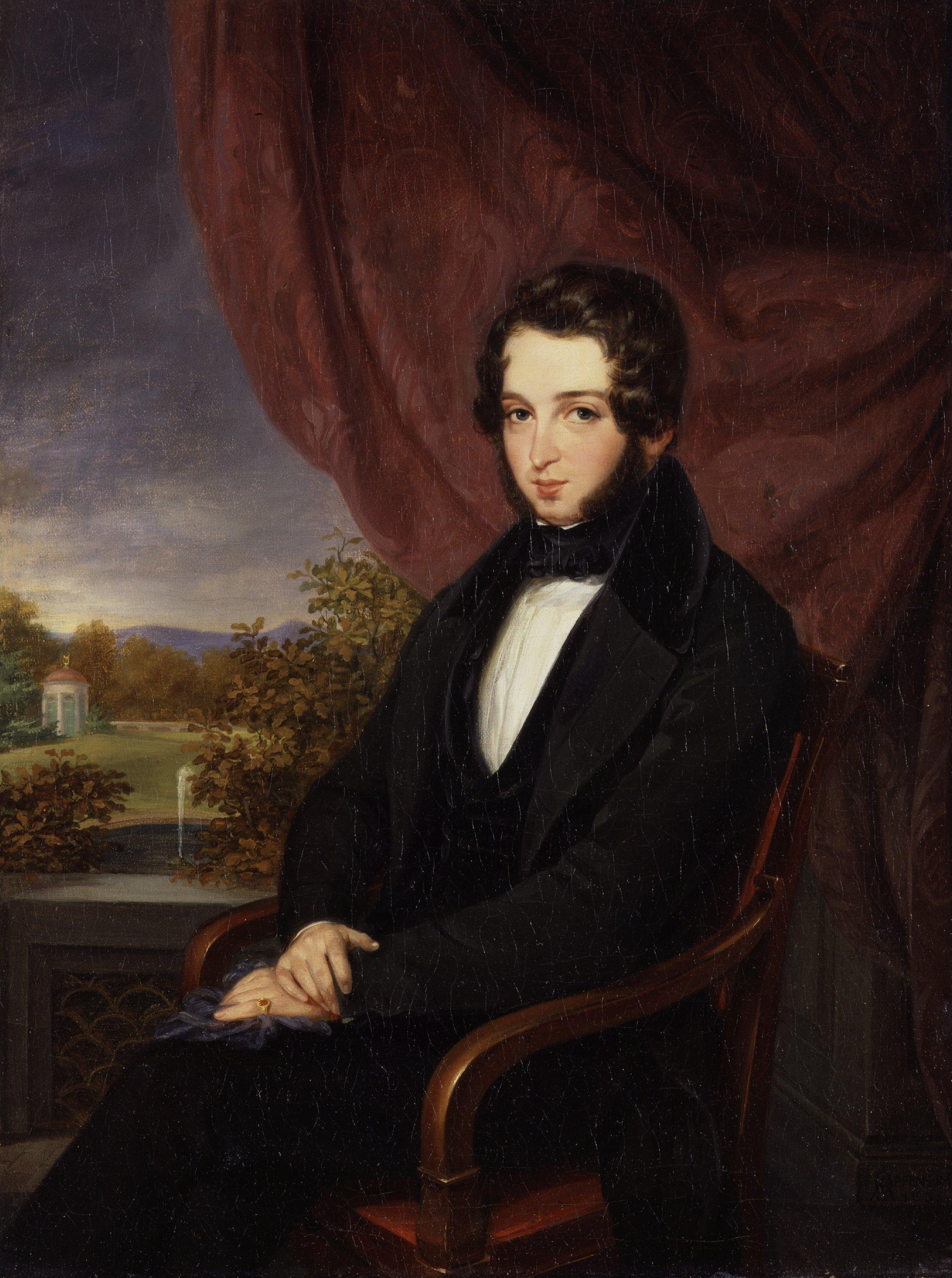 Lionel Nathan de Rothschild, by Moritz Daniel Oppenheim (died 1882). All images in this batch have been confirmed as author died before 1939 according to the official death date listed by the NPG.